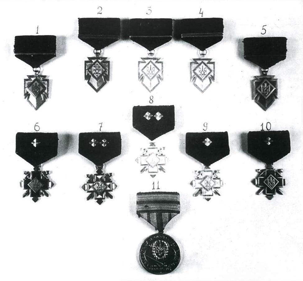 Some UIA orders seized by KGB officers. Photo from KGB archive materials